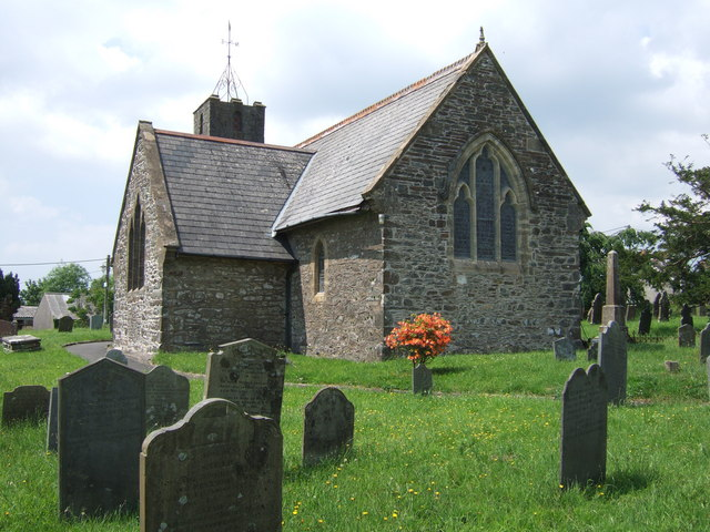 Eglwys Fair/St Mary's church The church stands in a raised circular burial ground in the middle of the village. It dates from the late C18 but was restored in the C19. The tower is rather slight and is surmounted by a flimsy-looking steeple-like structure crowned with a weathercock. The graves are mostly slate - once a major local industry.